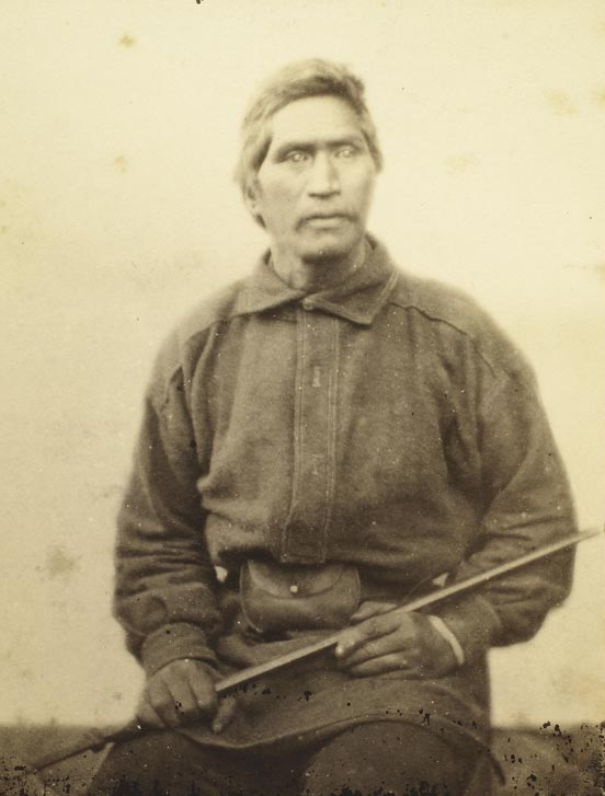 William Thompson chief of Ngatihaua. Three quarter length portrait of Wiremu Tamihana Tarapipipi Te Waharoa, also known as William Thompson, holding a rifle? across his lap.